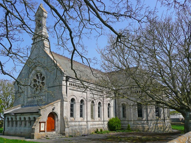 St Peter's Church, The Grove, Portland This church was built by prisoners, housed at the nearby Grove Prison, who also worked on the Portland Harbour breakwater. It was completed 1872. Now redundant, and not open to the public, it is privately owned.